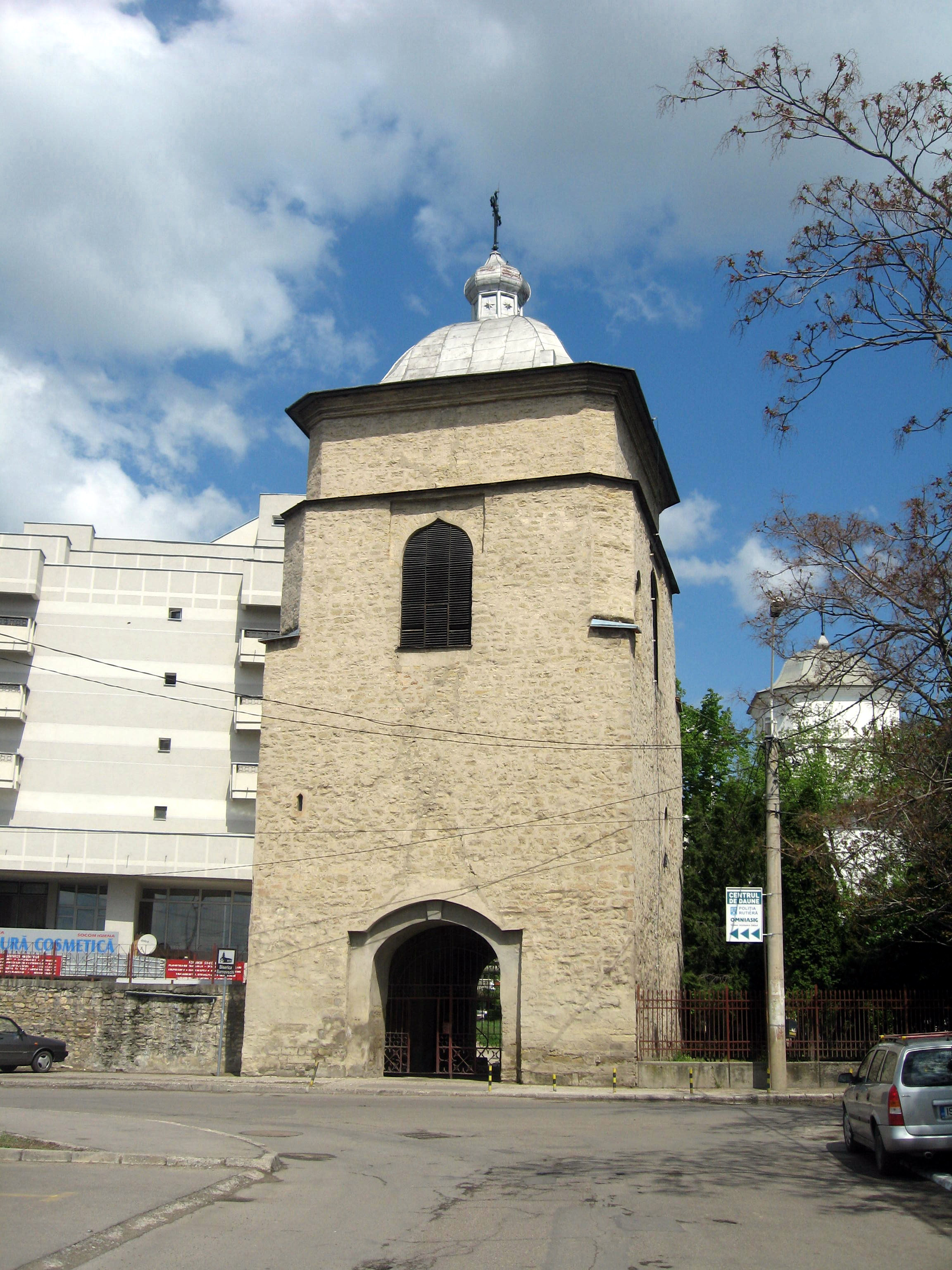 Barnovschi Church, Iași